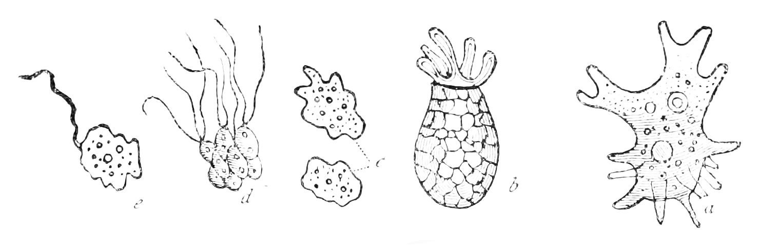 Amoebae and sponge particles